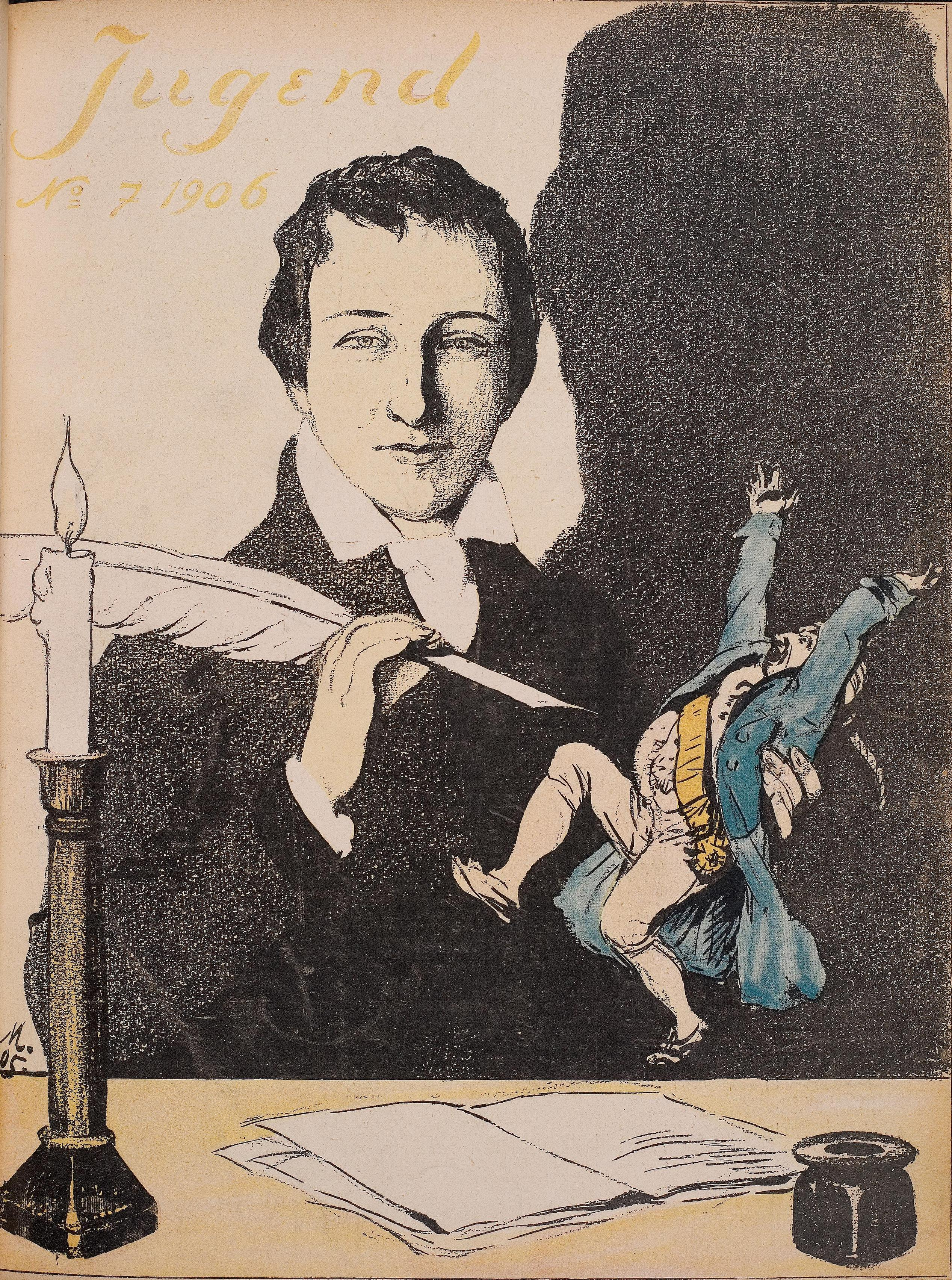 The front page of volume 7 of the 1906 Jugend magazine featured this illustration by Sergey Solomko, featuring Heinrich Heine